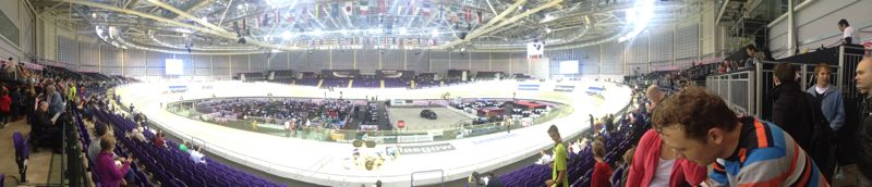 Panorama Sir Chris Hoy Velodrome Glasgow. 2012-13 track cycling world cup